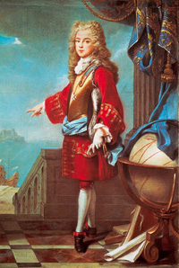 Portrait of Joseph Ferdinand, kurprince of Bavaria (1692-1699)